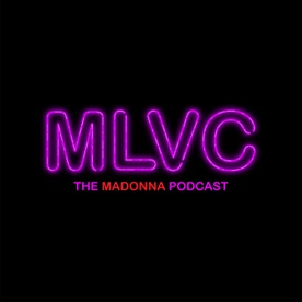 "MLVC" The Madonna Podcast-Logo